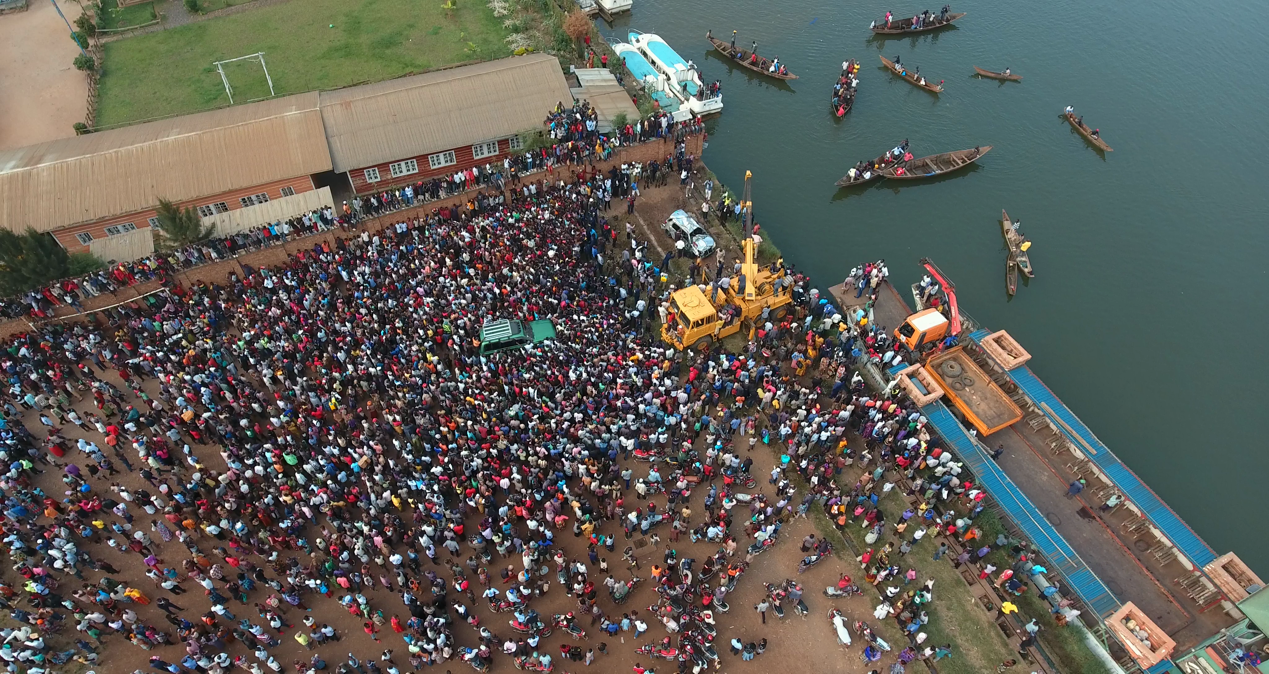 This is an image of "African people at work" from Democratic Republic of the Congo